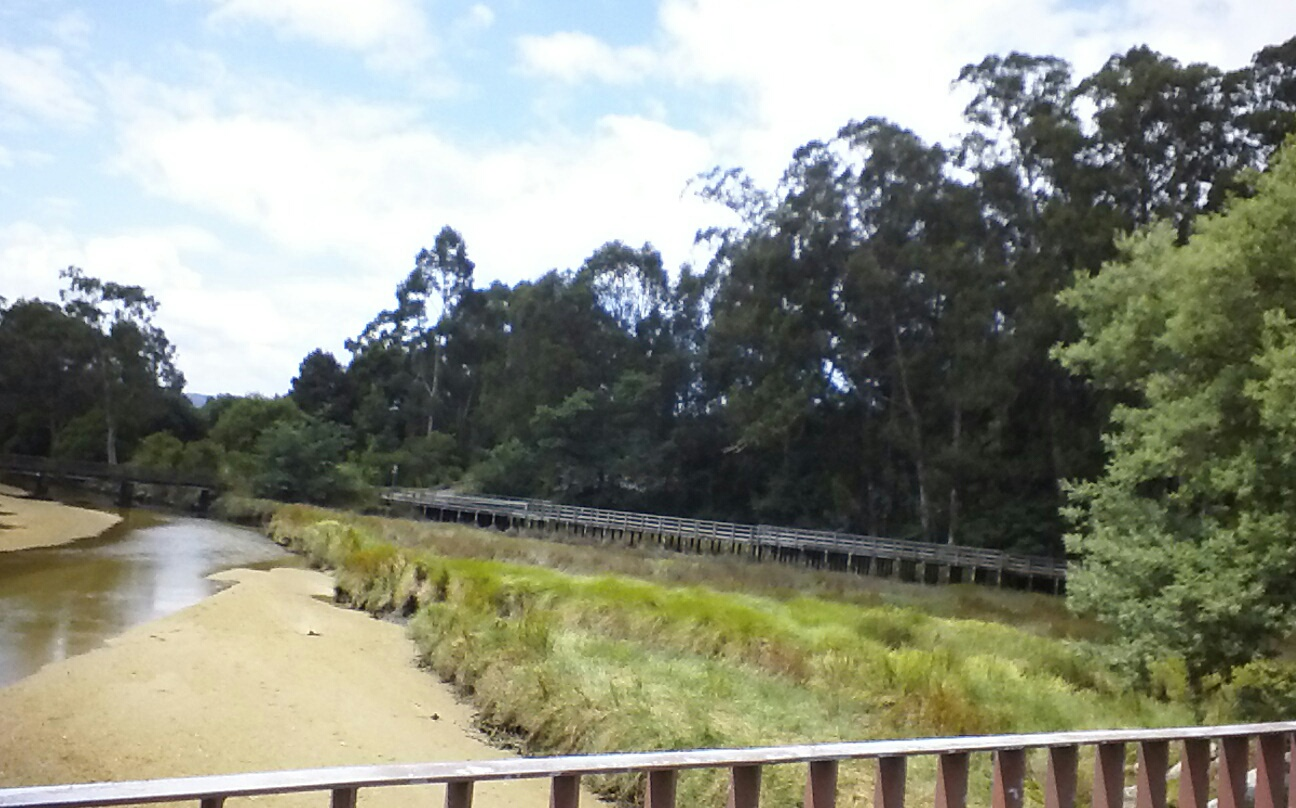 Parque marismas de Alba Pontevedra capital